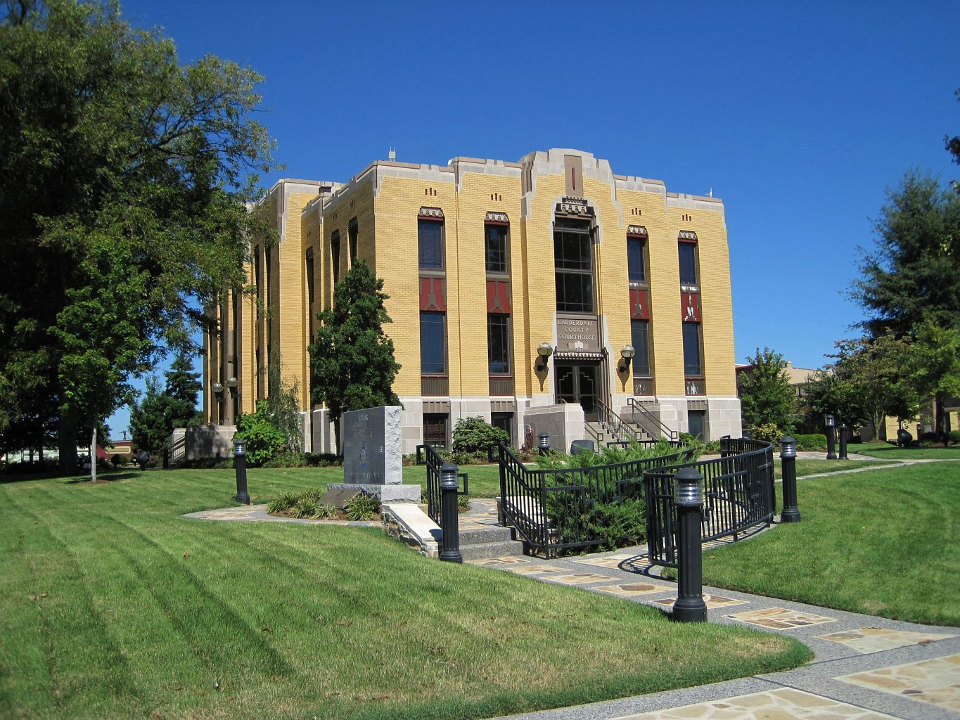 Lauderdale County court house in Ripley, Tennessee.